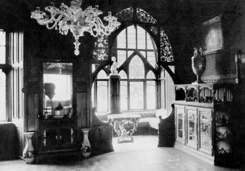 Drawing room of Princess Mary and Pricess Friederike in the Marienburg near Nordstemmen, Lower Saxony, Germany, in the year 1867.